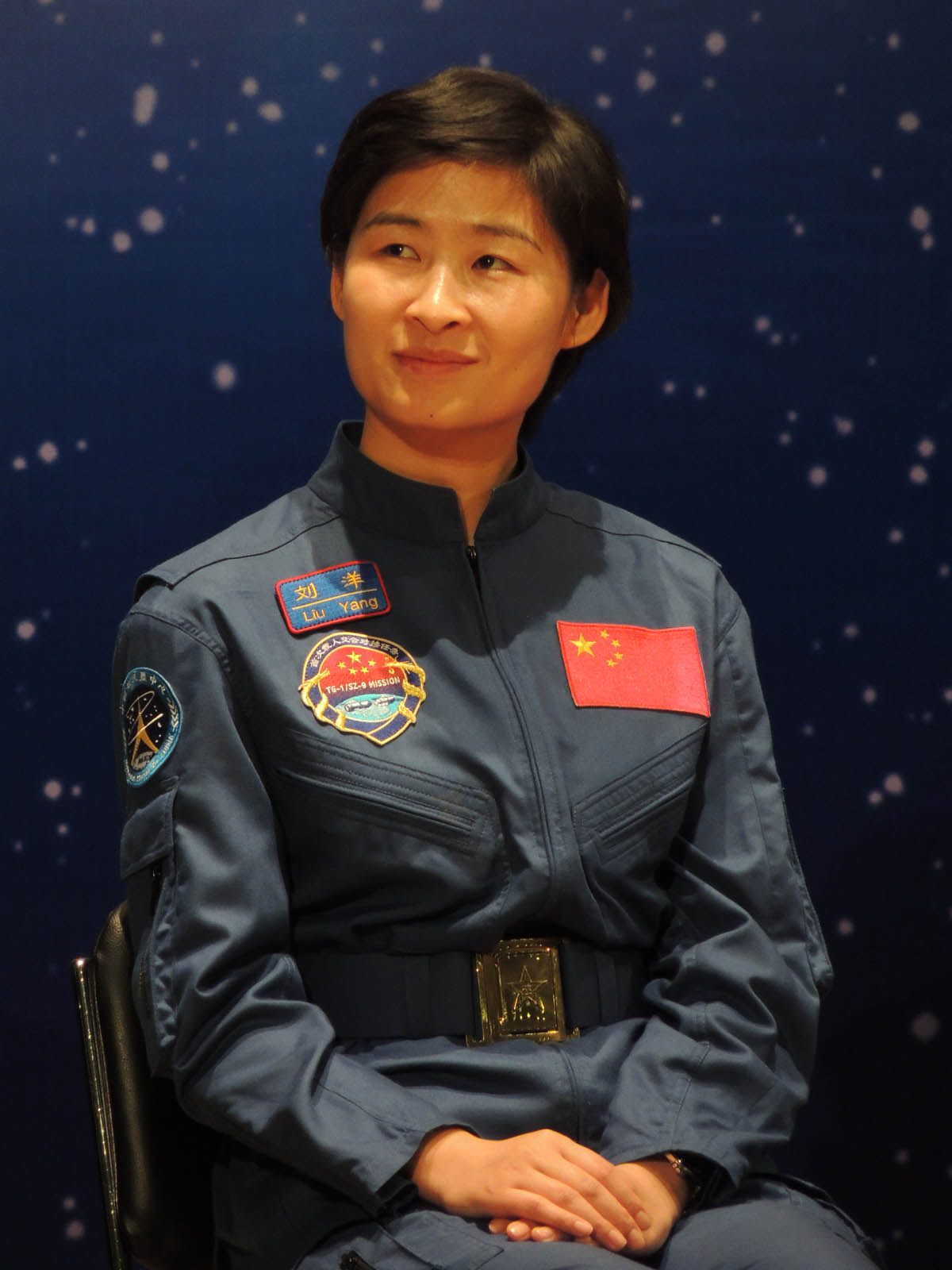 LIU Yang visited the Chinese University of Hong Kong on 12 August 2012